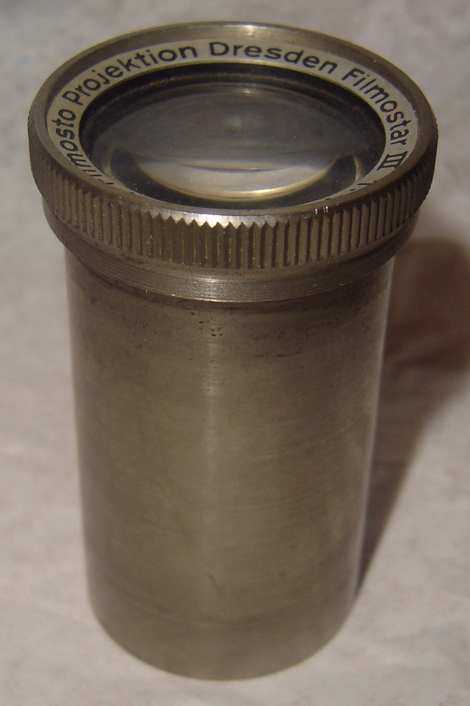 This is a projection objective of German optical company "Filmosto Projektion Dresden". The model is a "Filmostar III" with the aperture given as 1:4 and focal length as 100 mm.